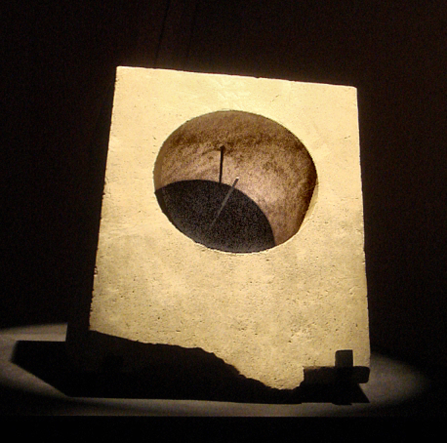 Sun dial from Ai Khanoum. 3rd century BCE. Musee Guimet. Personal photograph 2006.